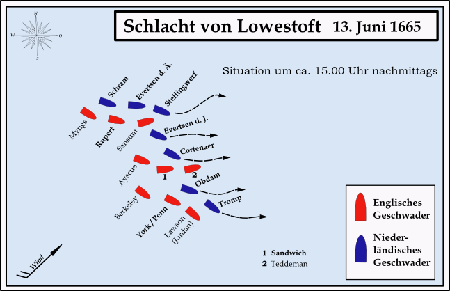 Map showing the Battle of Loestoft in 1665